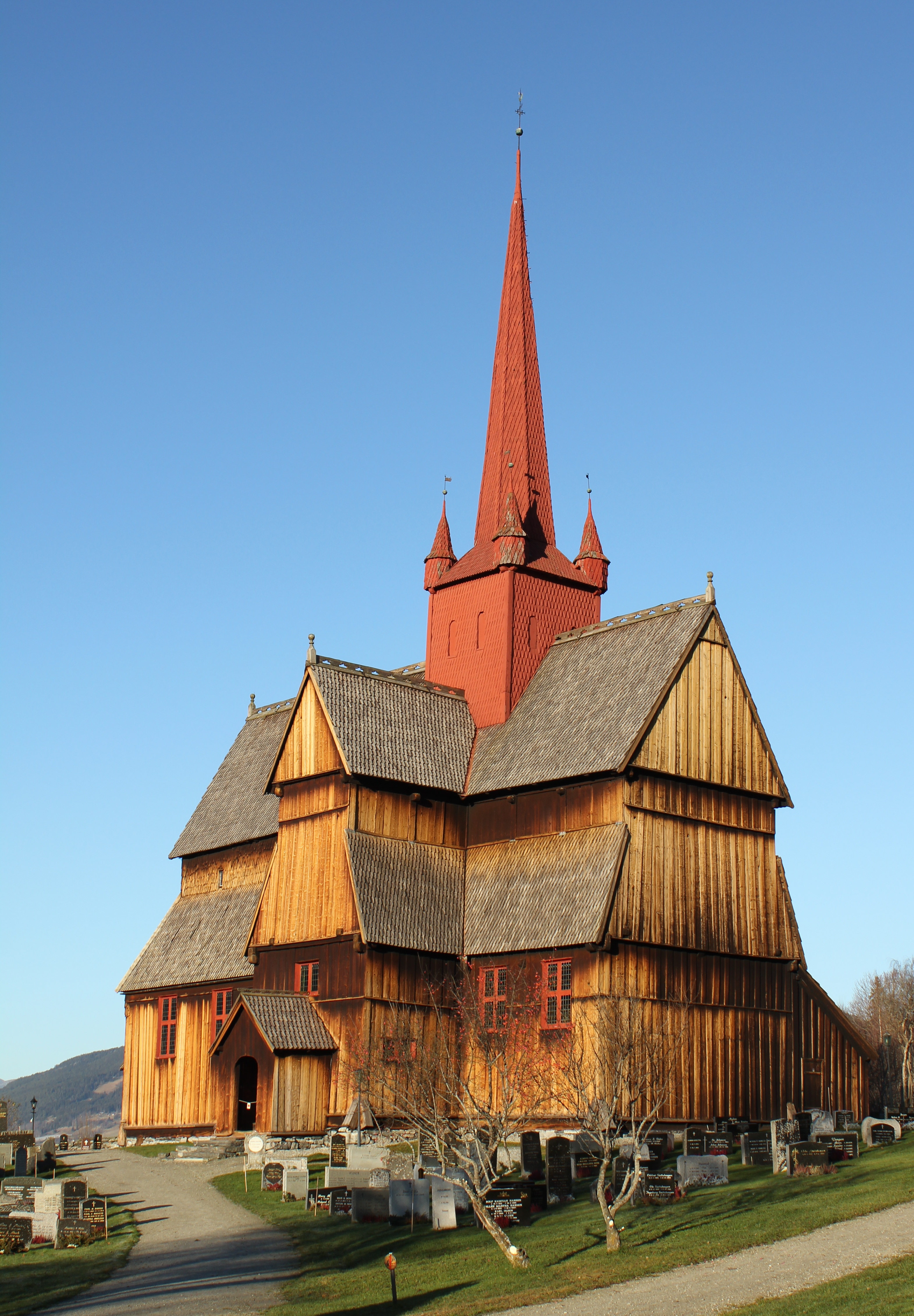 Ringebu stave church